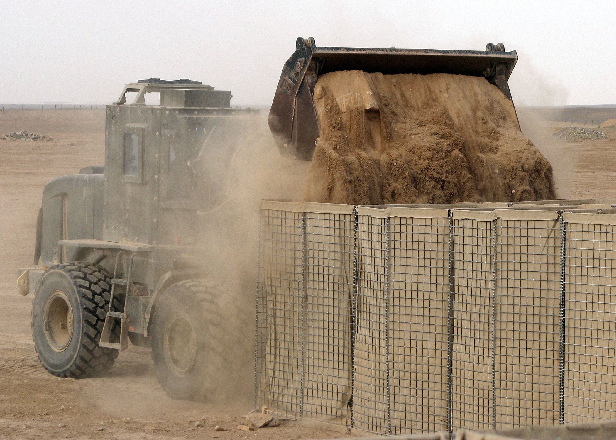 HELMAND PROVINCE, Afghanistan (April 11, 2009) A Seabee assigned to Naval Mobile Construction Battalion (NMCB) 5 uses an up-armored front end loader to fill HESCO barriers during a project at Camp Bastion. NMCB-5 is deployed to Afghanistan providing contingency construction support to allies and members of the NATO International Security Assistance Force (ISAF). NMCB-5 is one of the Naval Expeditionary Combat Command warfighting support elements providing host nation contingency construction support and security. (U.S. Navy Photo by Mass Communication Specialist 2nd Class Patrick W. Mullen III/Released)